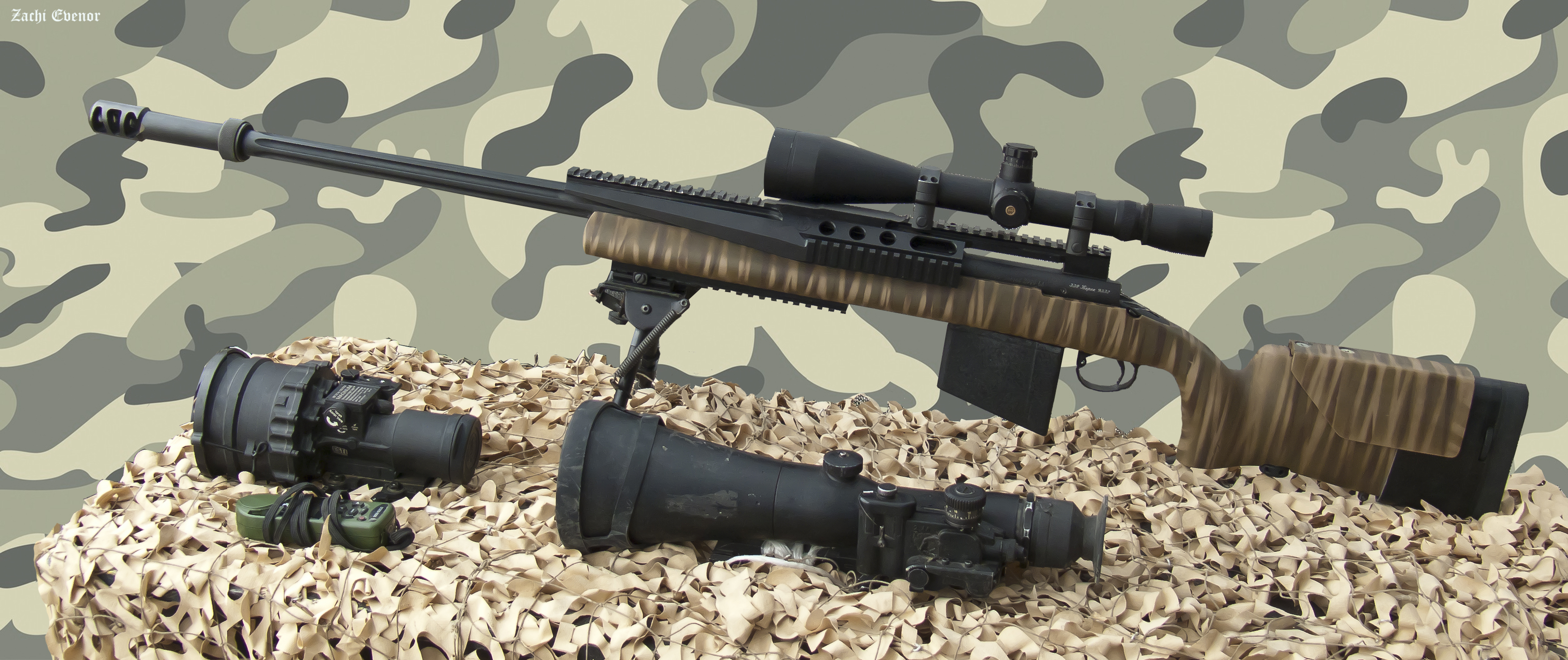 Israel Defense Forces Barak sniper rifle H-S Precision Pro Series 2000 HTR